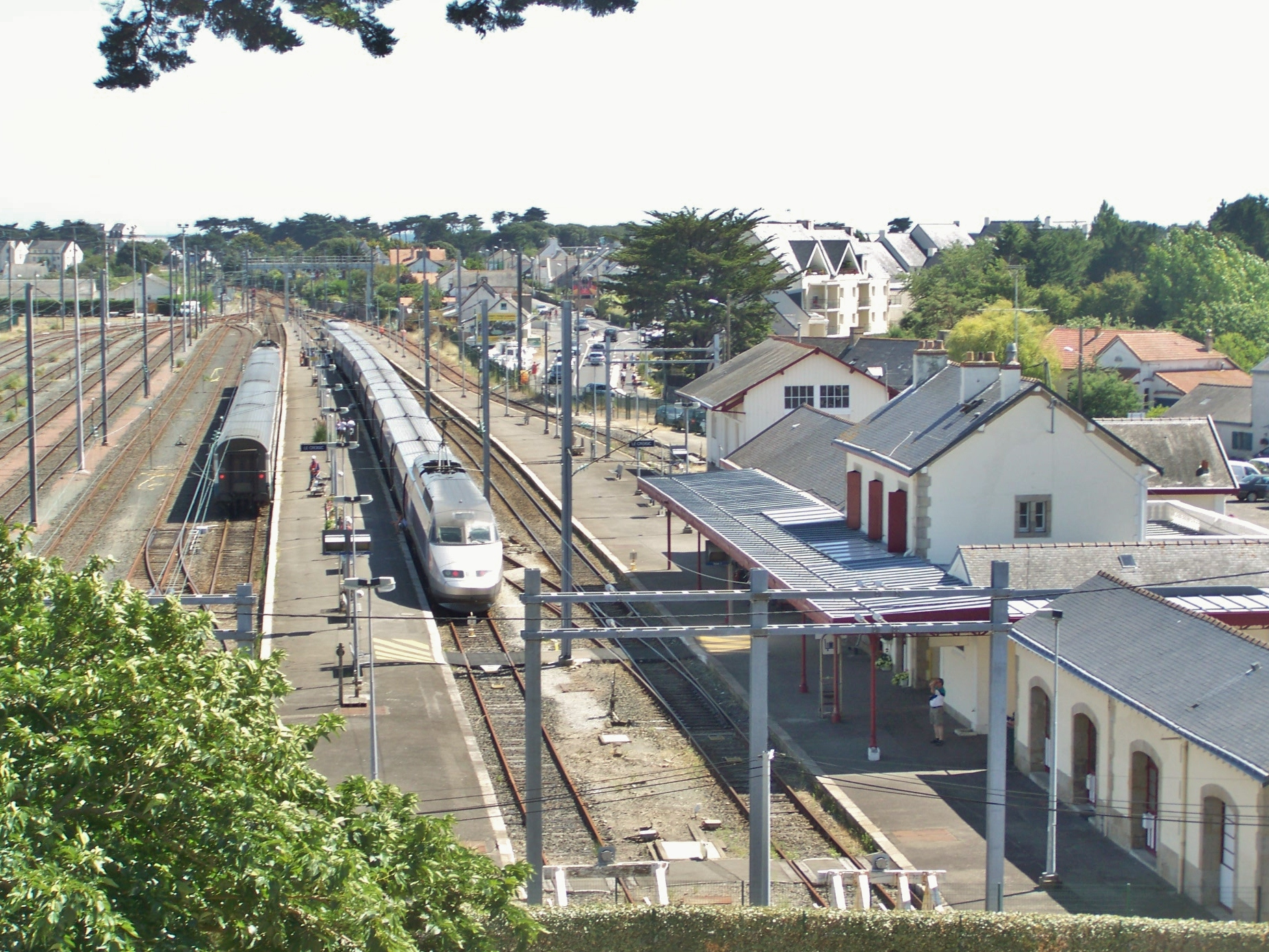 Platforms and tracks of gare du Croisic railway station (end of line) in Le Croisic, Loire-Atlantique, France.